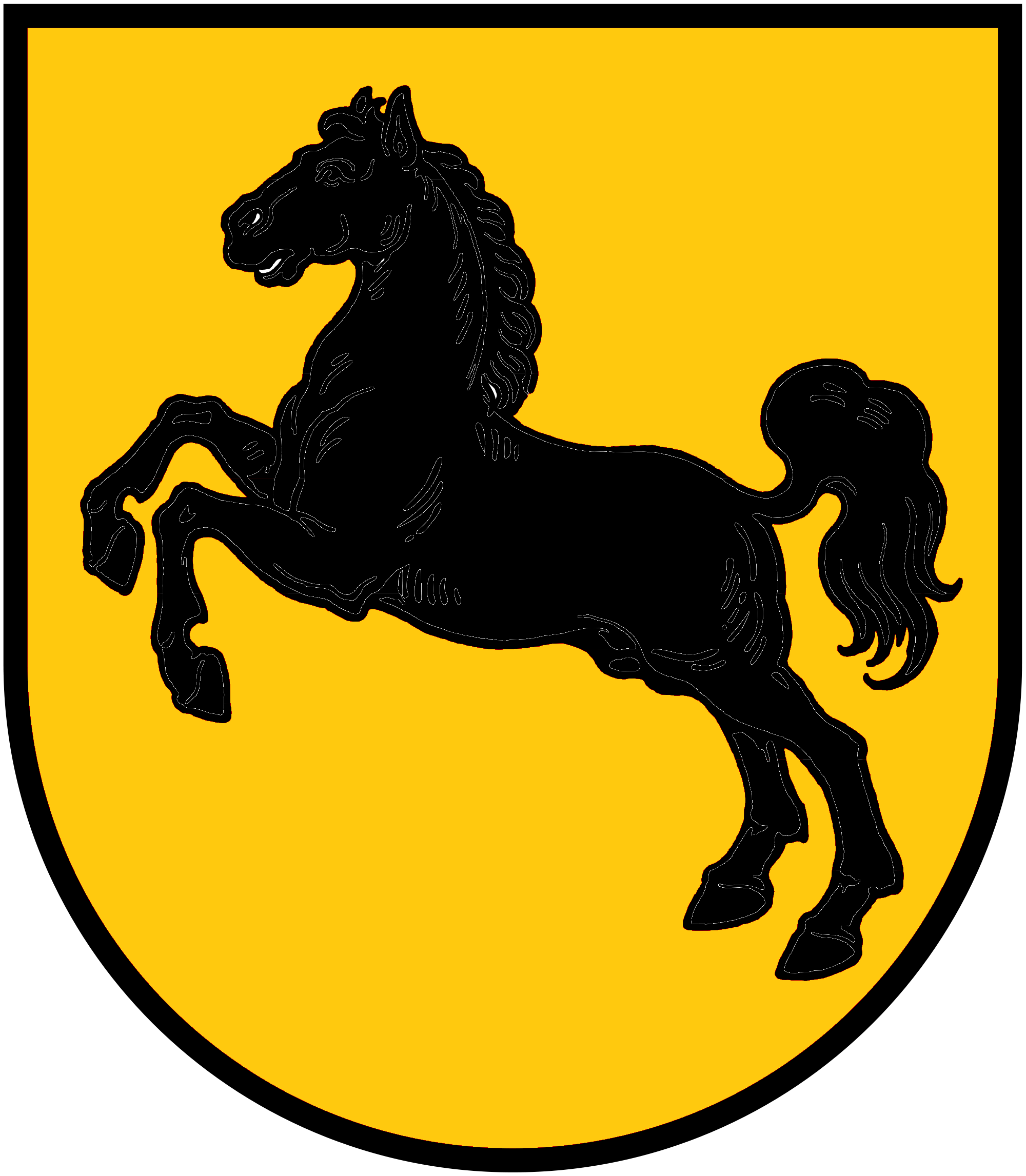 The first Saxon coat of arms from Old Saxony